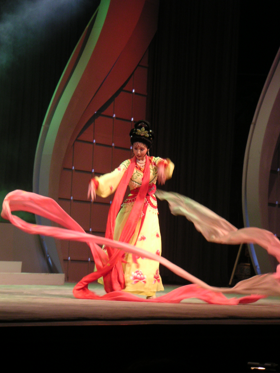 Shaoxing opera actress Wang Lin (王琳) performing a segment from Lotus Lantern (寶蓮燈) in Shanghai